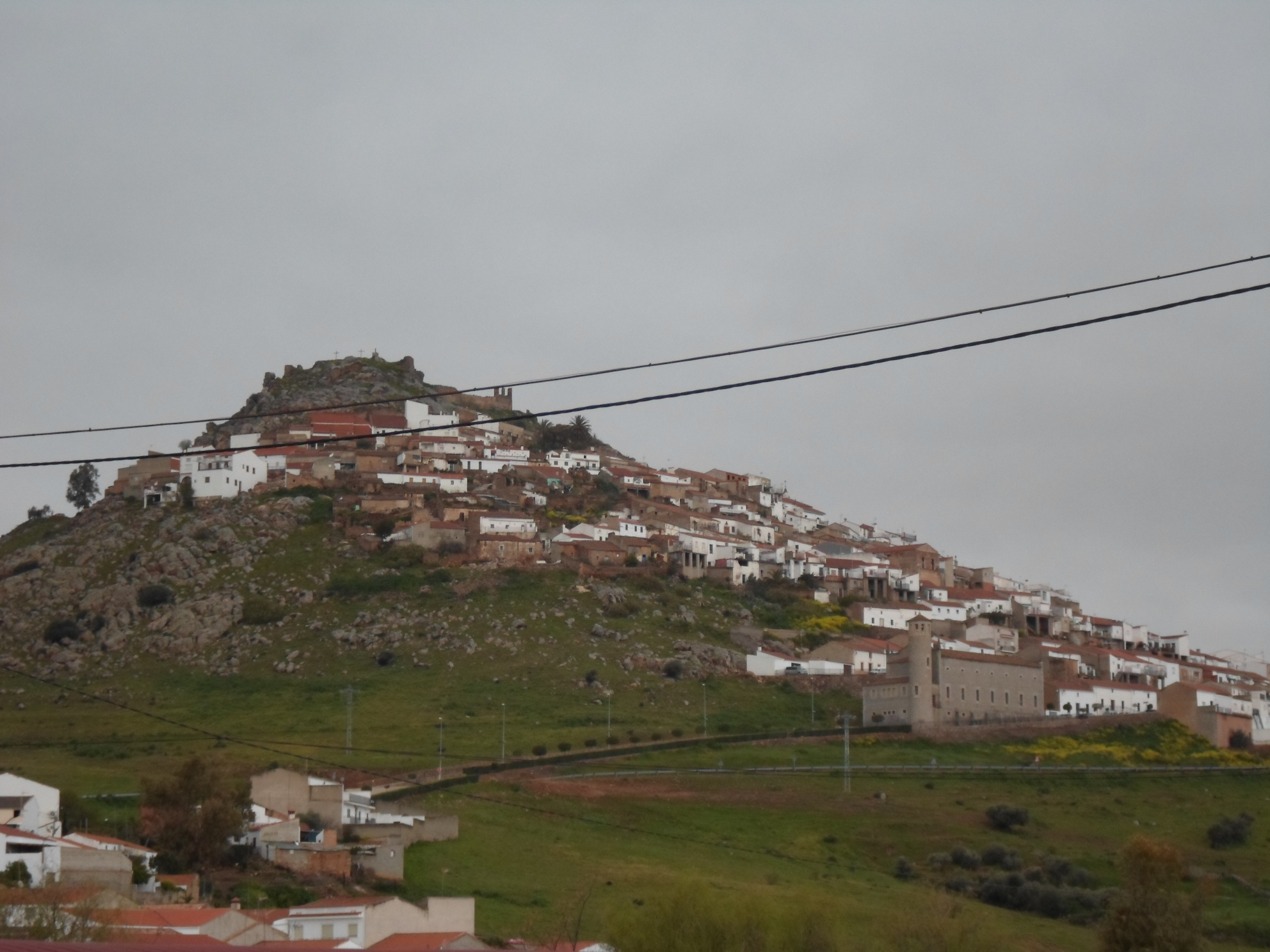 Magacela